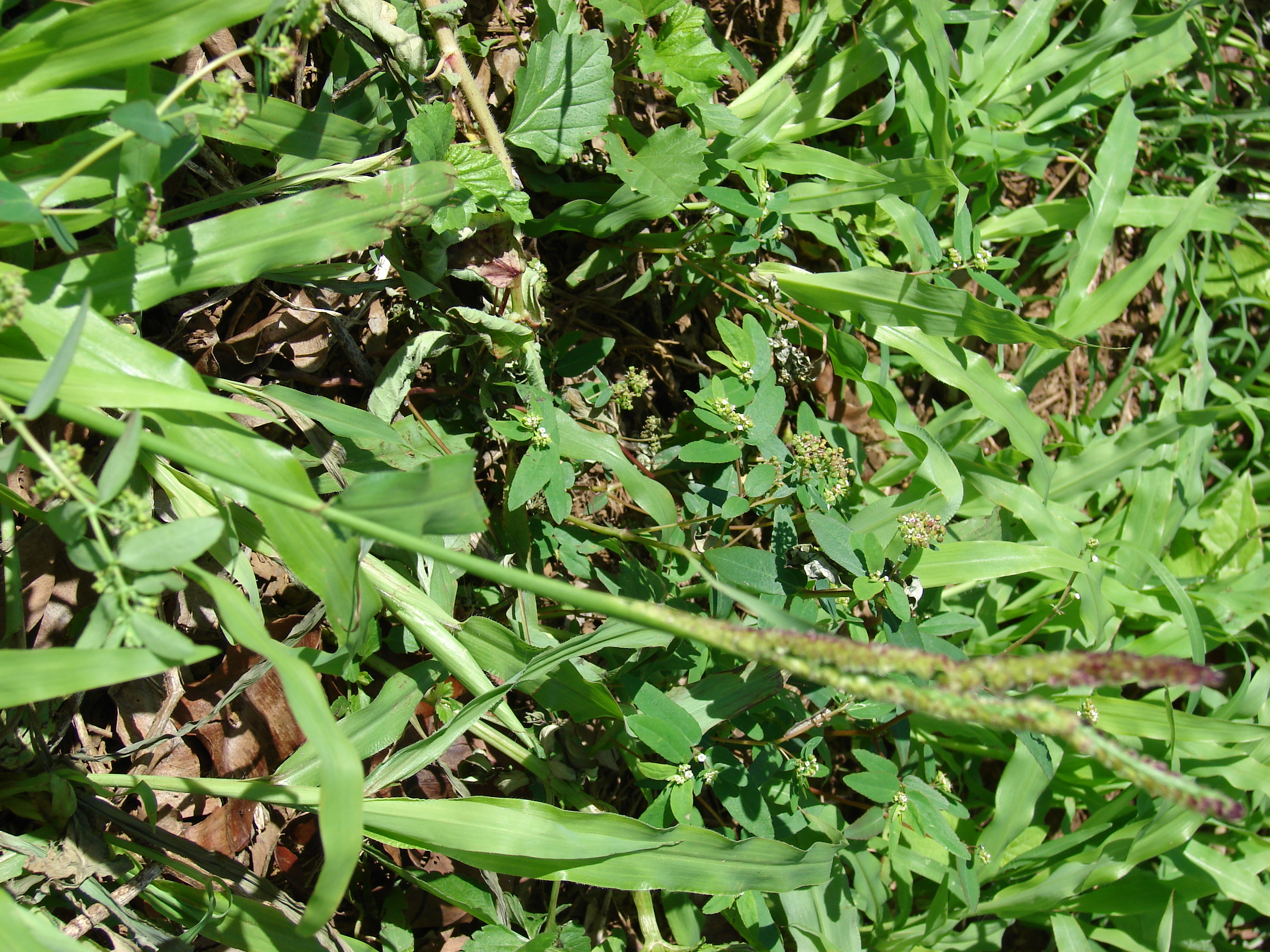 Paspalum fimbriatum (inflorescences). Location: Maui, Haiku